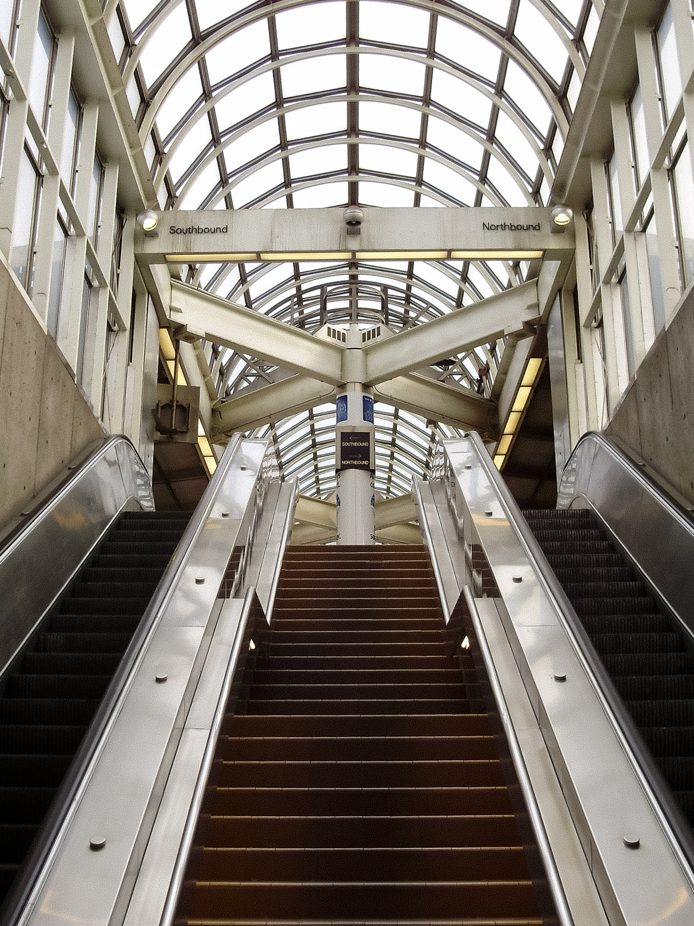 Looking up the escalators to the subway platform at the southern end of the Toronto Transit Commission's Yorkdale station.